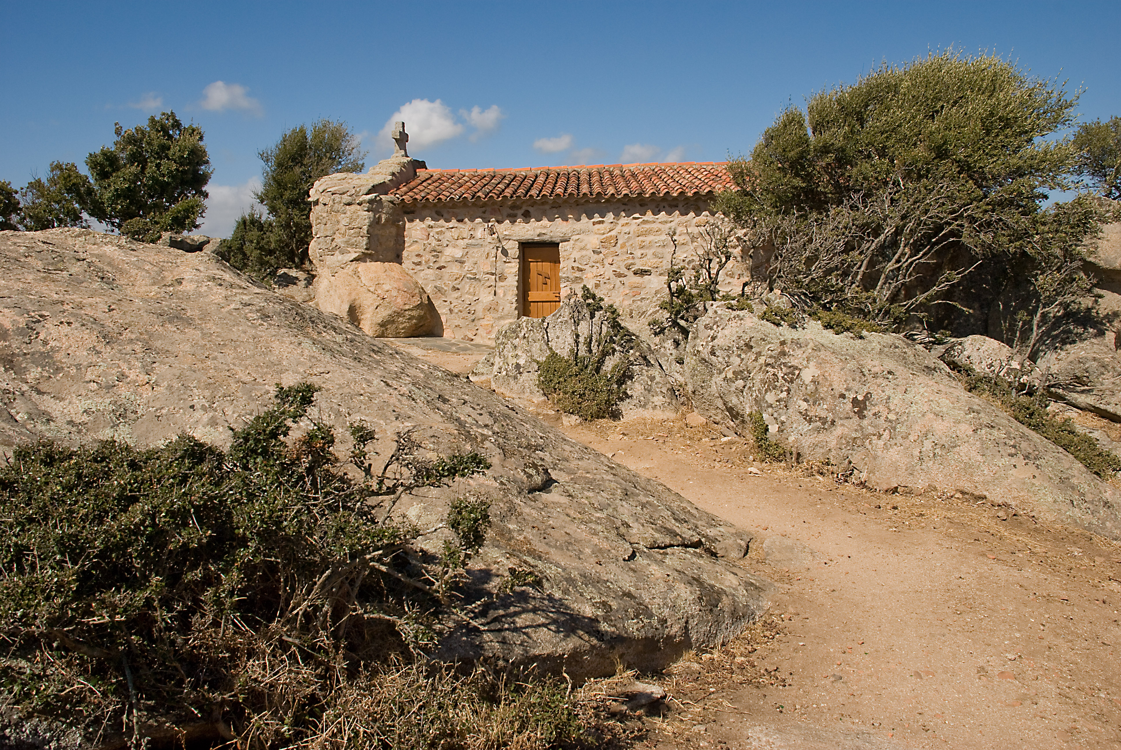 San Trano church near Luogosanto, Sardinia, Italy